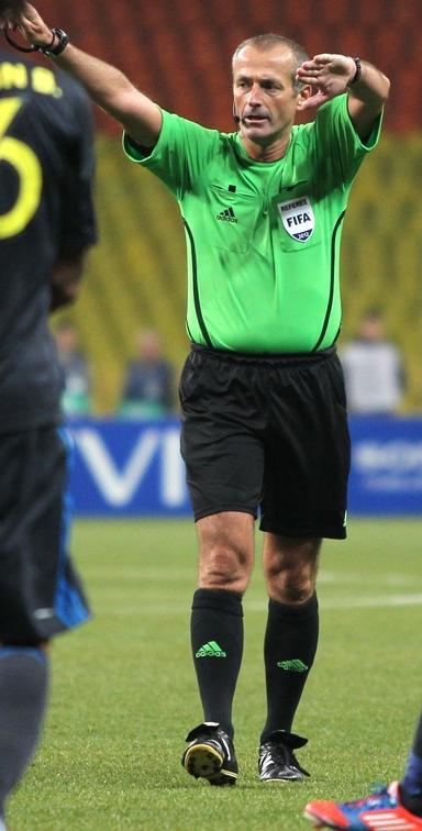 Martin Atkinson refereeing the Spartak Moscow - Fenerbahçe Champions League play-off round game in 2012.